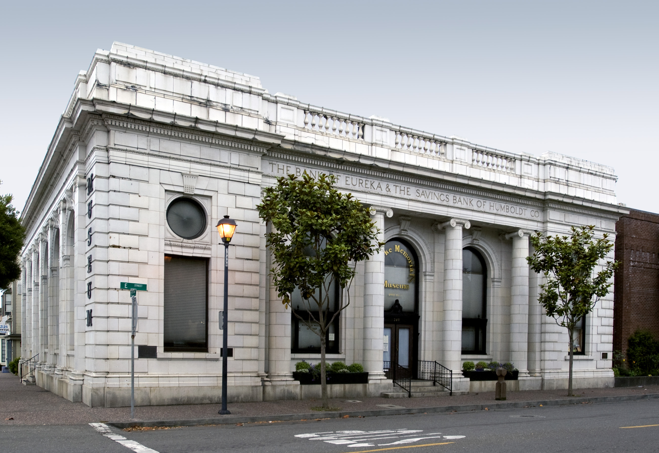 Bank of Eureka in Eureka, California. Listed on the National Register of Historic Places in 1982.